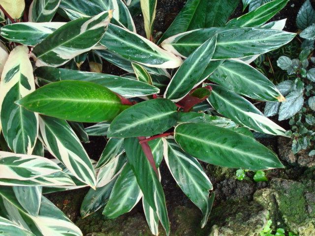 Picture of Ctenanthe oppenheimiana